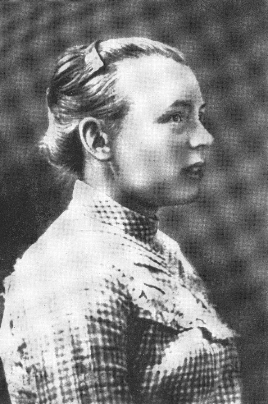 Politician of the USSR. Yakov_Sverdlov (1885-1919)